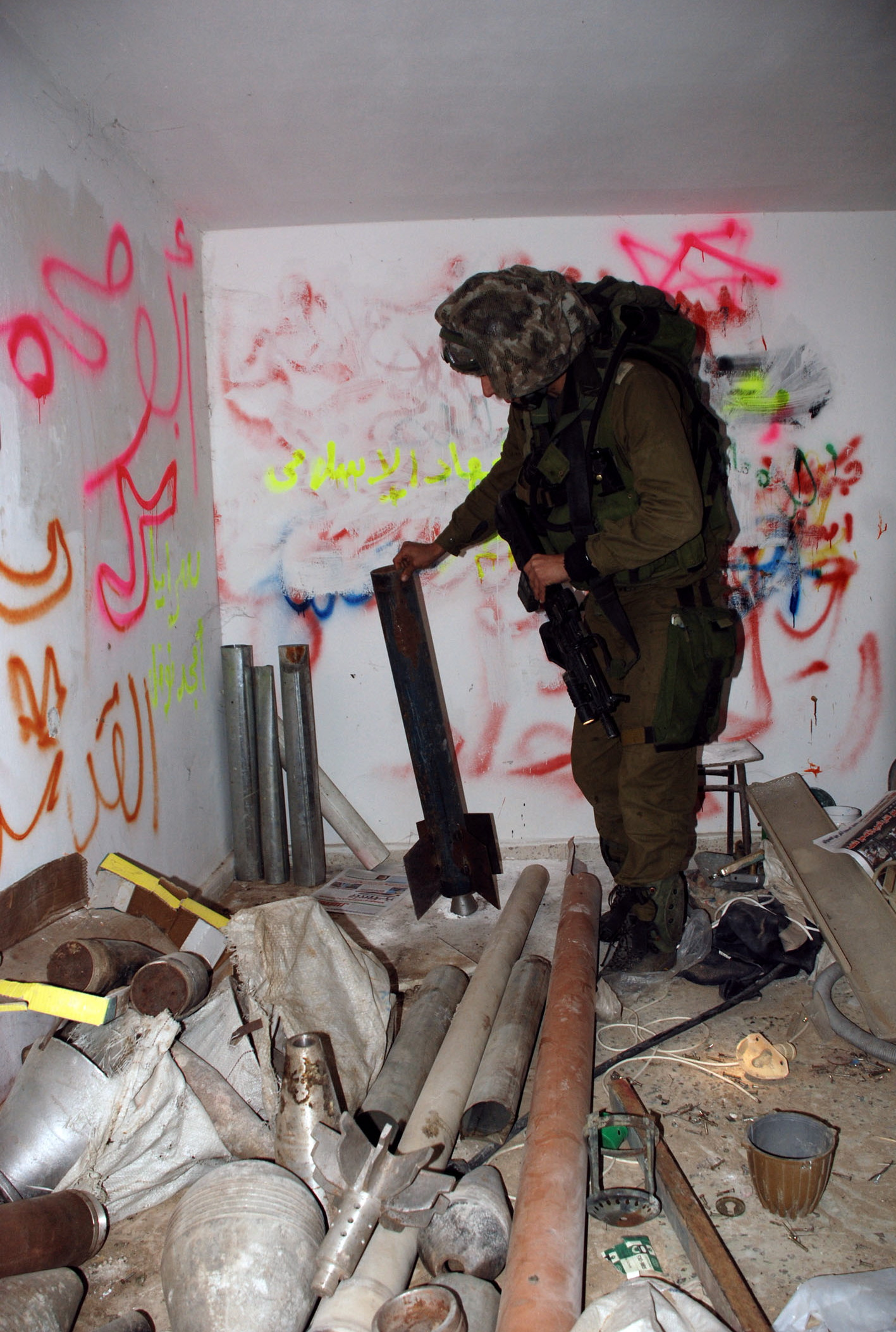 January 12, 2008 - IDF forces discover weapons in a mosque during Operation Cast Lead in the Gaza Strip.